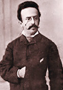 Giacinto Gallina, Venetian playwright (1852 - 1897)